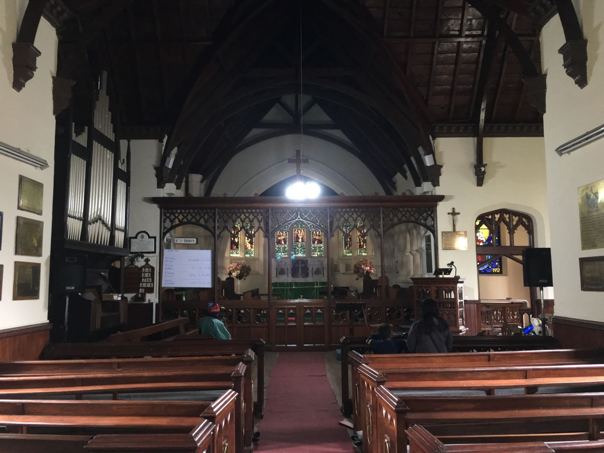 Interior (altar) of All Saints Church, Nuwara Eliya